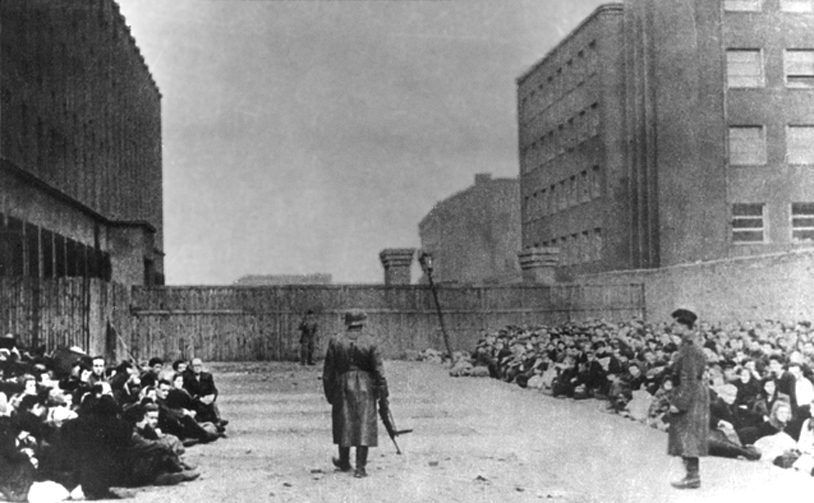 Warsaw Ghetto. Jews awaiting deportation at the Umschlagplatz